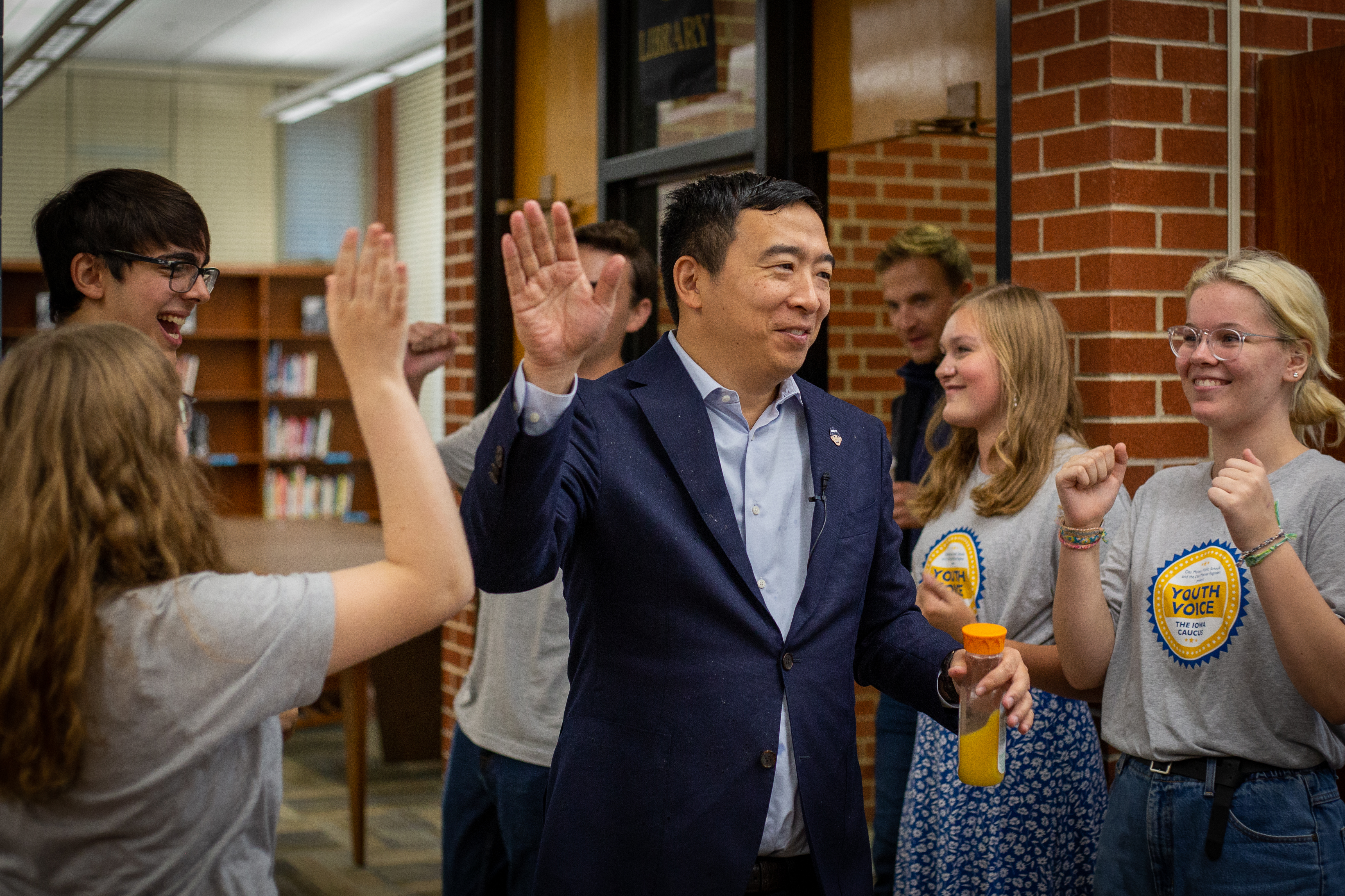 Andrew Yang. Photos taken for work of Youth Voice: The Iowa Caucus, a presidential candidate forum hosted at Roosevelt High School. U.S. Representative Tulsi Gabbard, U.S. Senator Michael Bennet, U.S. Senator Bernie Sanders, Andrew Yang, Joe Sestak and Tom Steyer took part in the event, answering questions from high school and college students from Des Moines and even across the country. The event was co-sponsored by Des Moines Public Schools and the Des Moines Register.